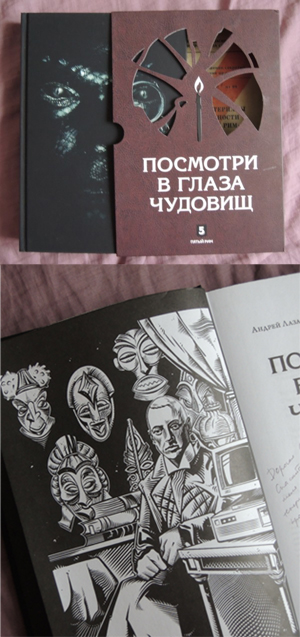 photo of book